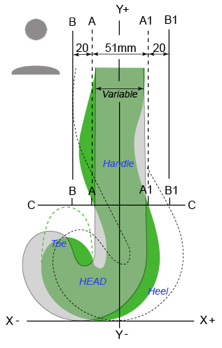 Limits of hockey stick head shapes and configurations.